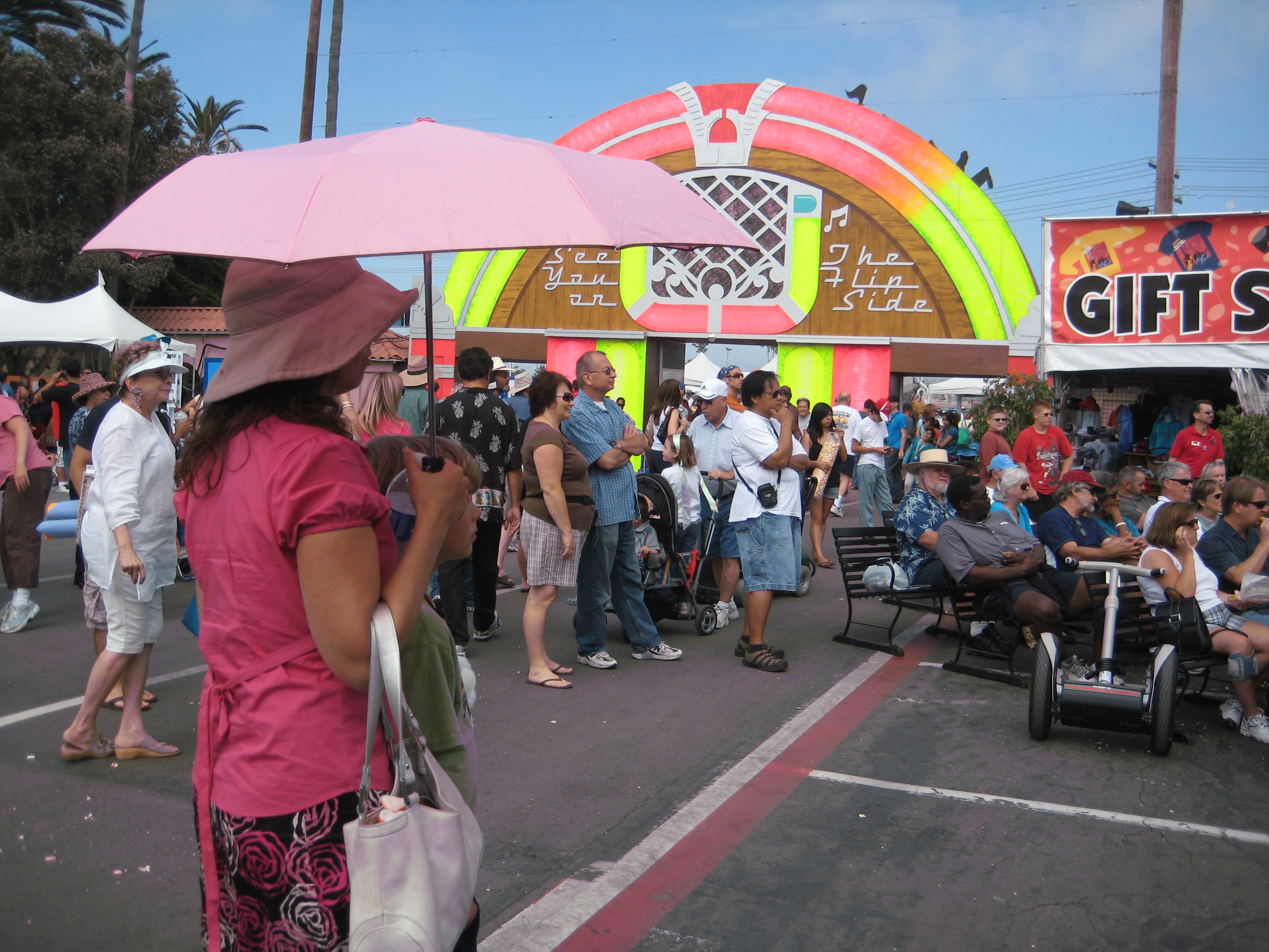 A view of the crowd at the annual San Diego County Fair in Del Mar, California, 2009. Photograph by Patty Mooney, Crystal Pyramid Productions, San Diego, California